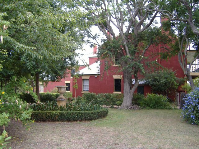 Englefield, East Maitland